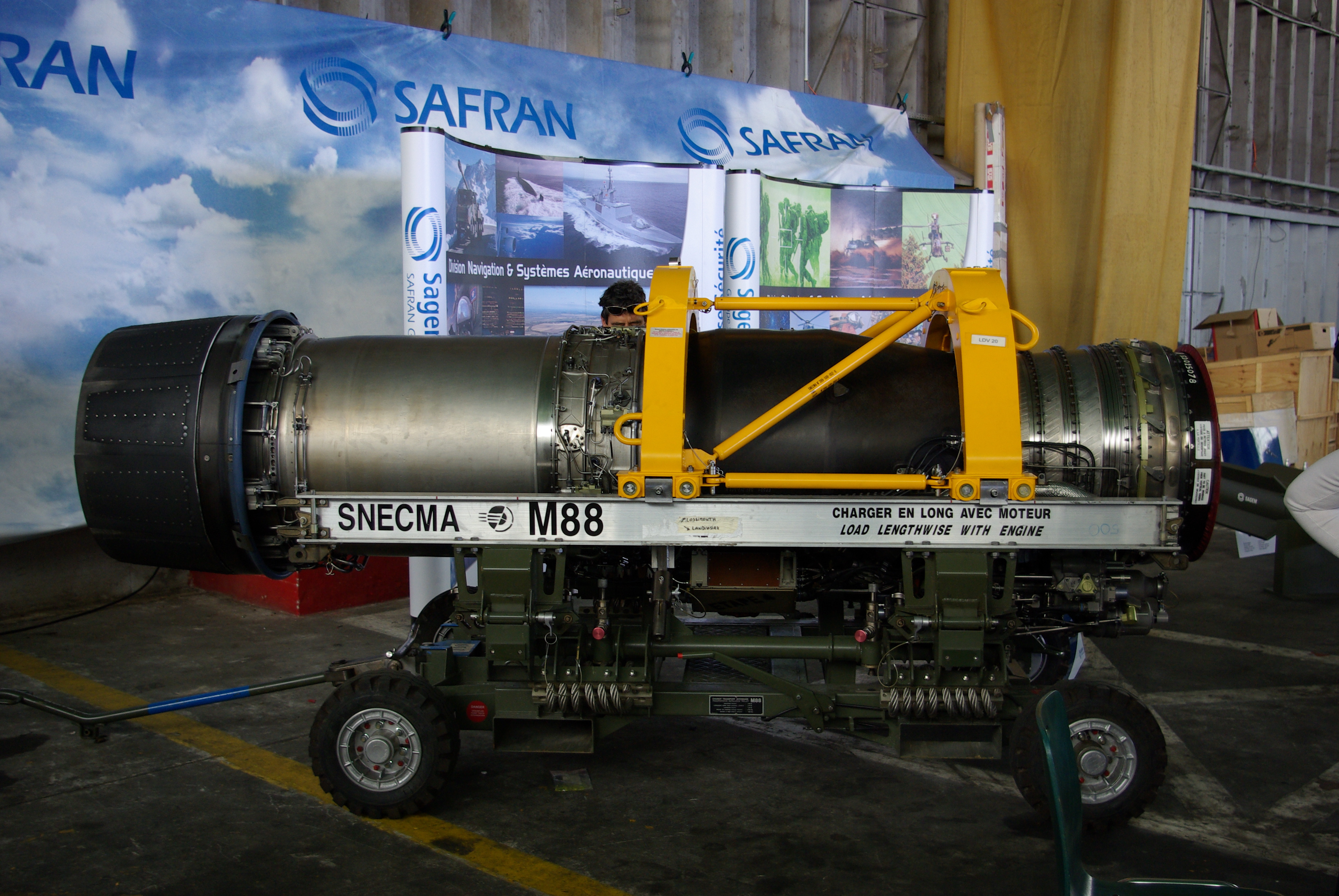 A Snecma M88 turbojet engine fitting out the Dassault Rafale. Photo taken at NAS Landivisiau (France).